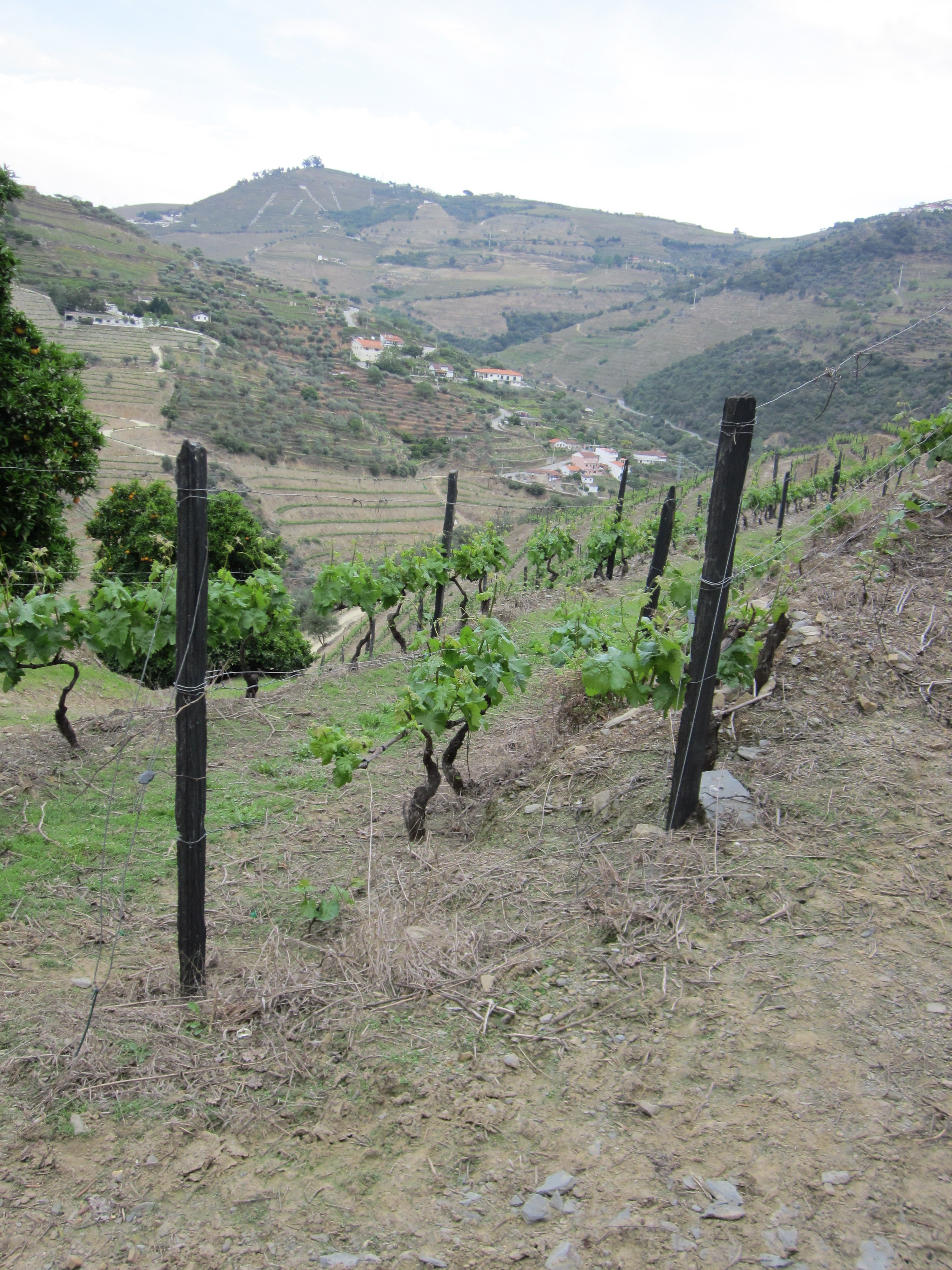 Slate posts in a vineyard near the village Pinhão, Alijó, Portugal.